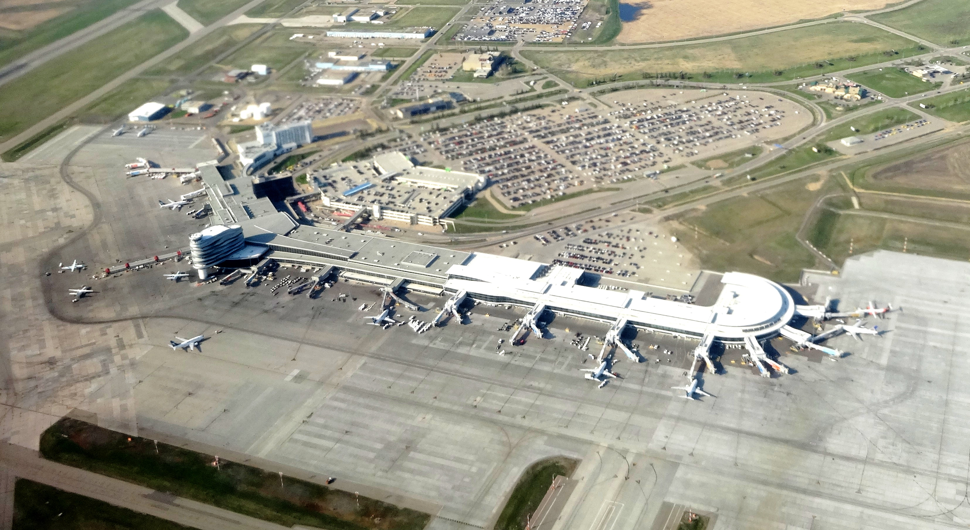 Edmonton International Airport from above